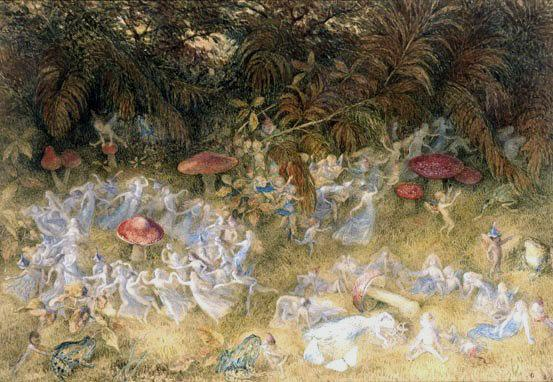 Fairy Rings and Toadstools; watercolor on paper; 50.00cm x 34.50cm high (19.69 inches x 13.58 inches)